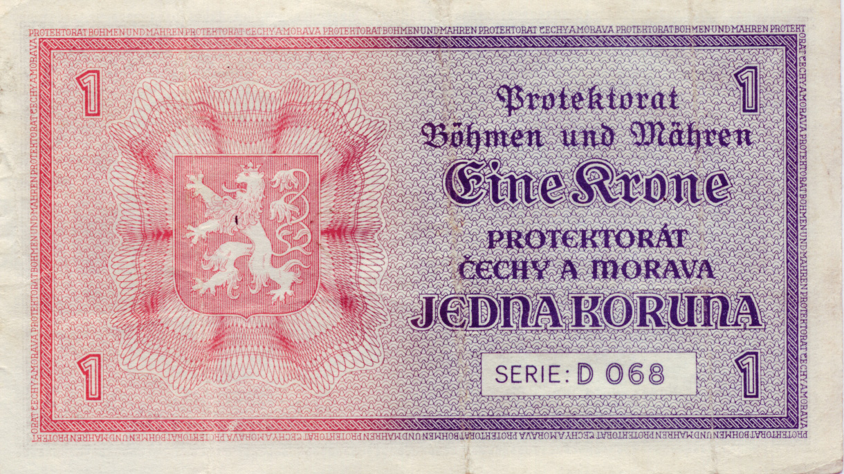 1 Koruna Note of Protectorate of Bohemia and Moravia - obverse.